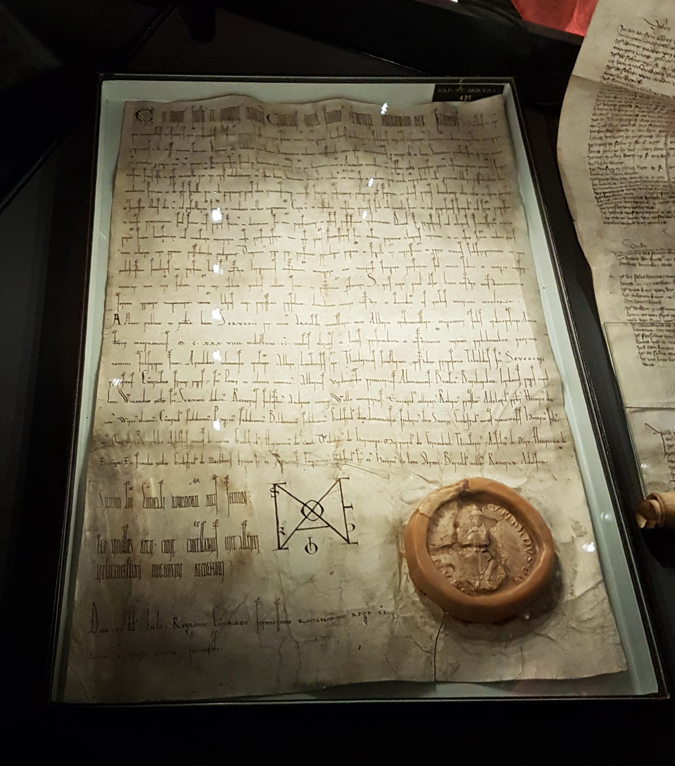 Deed of king Conrad III of 1139 in which he donates the bridge over the river Meuse (later called Sint-Servaasbrug) to the chapter of Saint Servatius in Maastricht. The charter was kept for centuries in the archive of the chapter of Saint Servatius. It is now part of the 'treasury' of the National Archives in Limburg (Regionaal Historisch Centrum Limburg, RHCL), Maastricht, Netherlands.